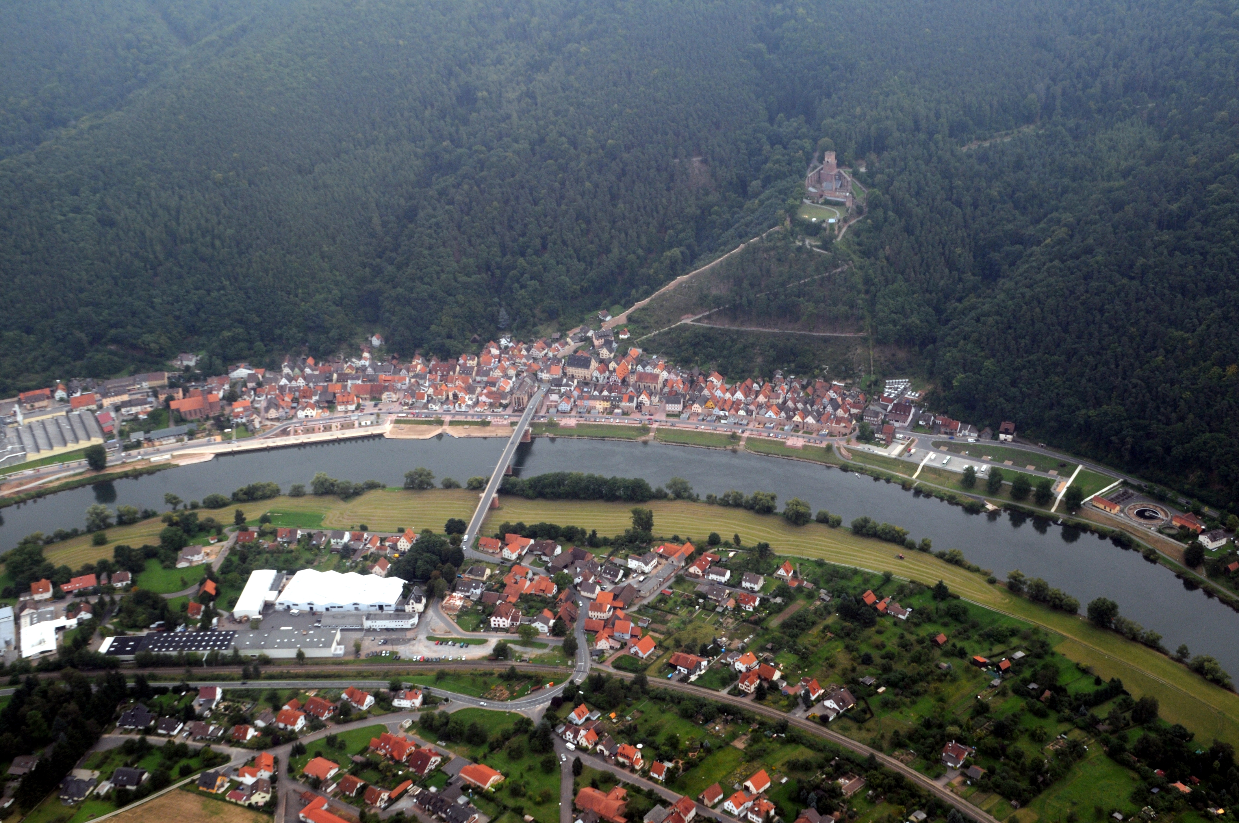 Freudenberg (Baden) in Baden-Württemberg, Kirschfurt of Collenberg in Bavaria, Germany, aerial photograph